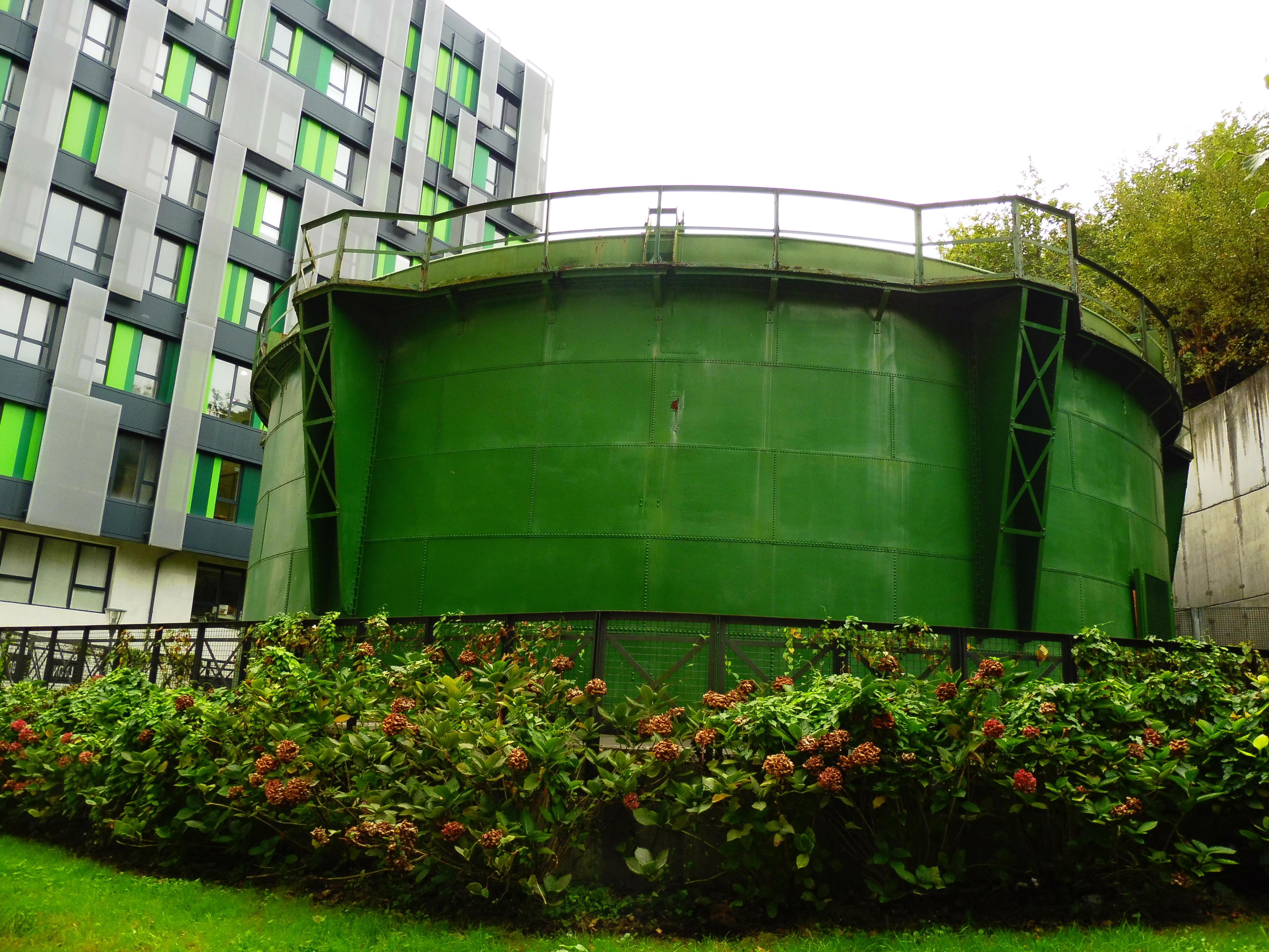 1861ean sortu zen Donostiako Udal Gas Lantegia eraitsi ondoren gasometroa eta gasomotorea besterik ez dira gelditzen Morlansen. 2010 urtetik hona gasometroa Amara-Ibaeta (edo Izoztegiko) biaduktutik gertu. eraikin hori gimnasioa da egun / Los únicos restos que permanecen en Morlans de la antigua Fábrica de Gas Municipal fundada en 1861 y que fue demolida son el gasometro y el gasomotor. Desde el 2010 elgasomotor permanece cerca del vial Amara-Ibaeta. Colección Amarauna Bilduma. -- 2018-- Argazkilaria / Fotógrafo: Donostia Kultura. --Informazio gehiago: Amarako Ernest LLuch Kultur Etxeko Liburutegia / Más información: Biblioteca del Centro Cultural Ernest LLuch R. 1445